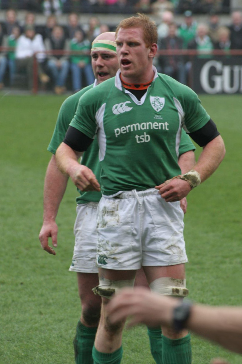 Paul O'Connell in action for Ireland. Standing in front of John Hayes.